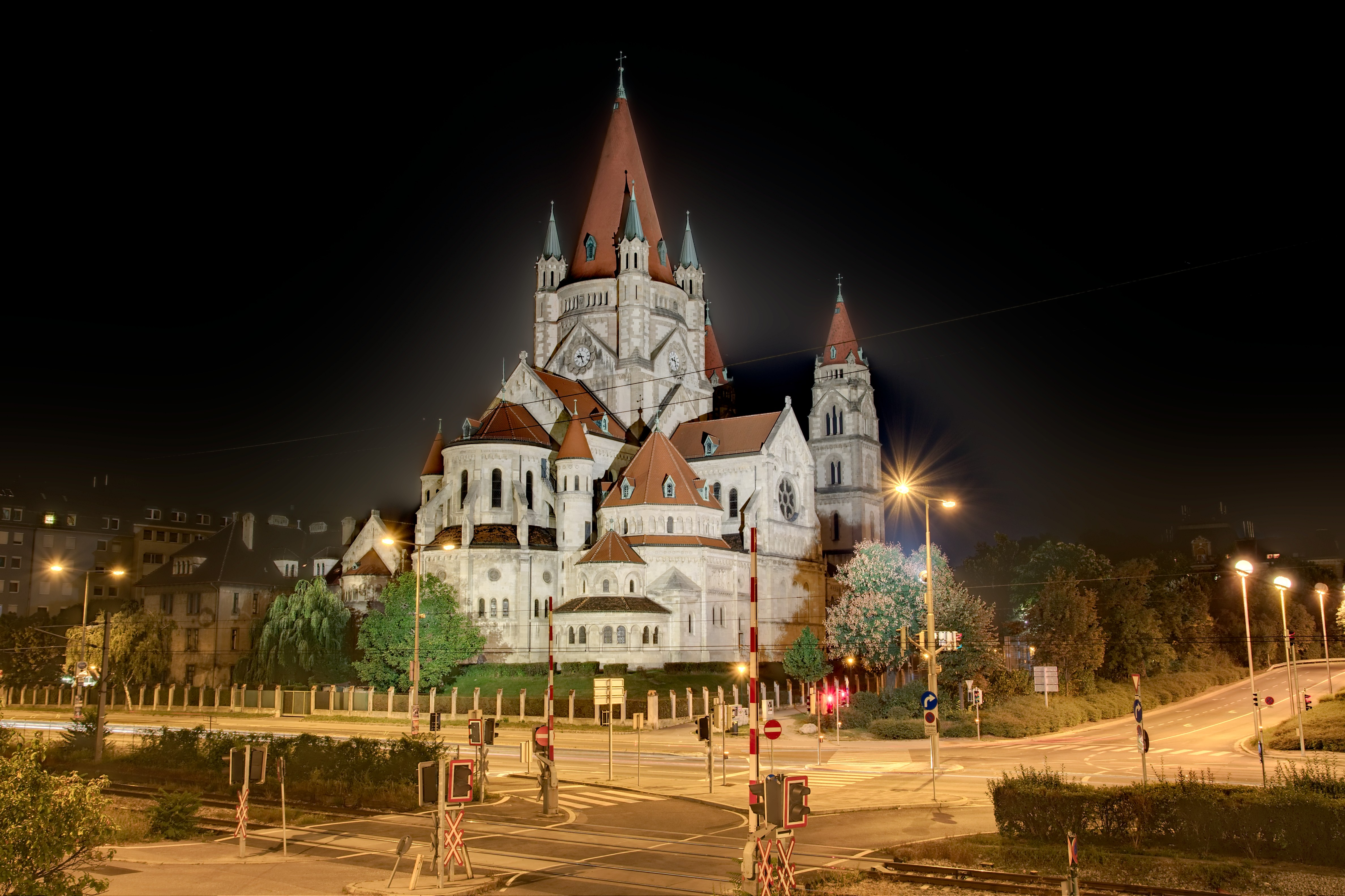 Night shot of famous "Franz of Assisi church" in Vienna. HDR/DRI done with enfuse, exposures from 1/30 s to 2 min.